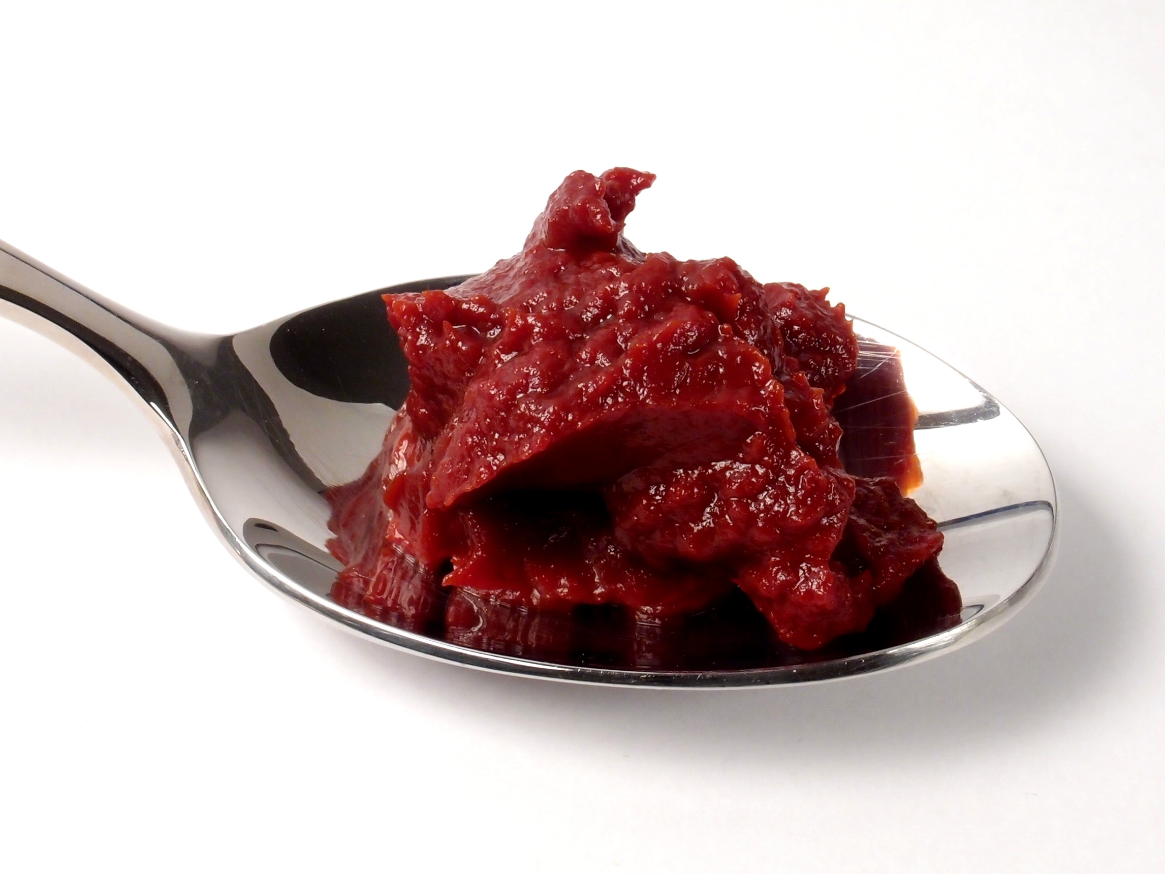 A spoonful of triple concentrated tomato paste.